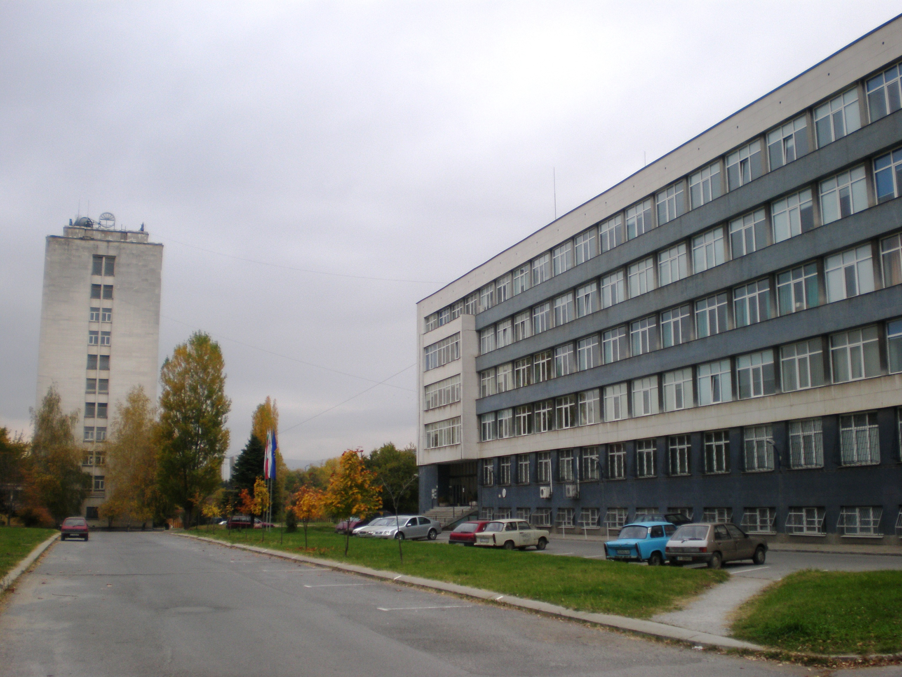 BAS Institute - Sofia, Bulgaria